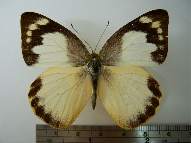 Kerry took this picture at his house on 16 July 2005 Scientific name: Appias albina semperi ♀ Date of collection: VIII 1996 Place of collection: Taipei city, Taiwan 中文（台灣）: Kerry在2005年7月16日攝於自家 學名：Appias albina semperi ♀ 採集日期：1996年8月 採集地點：台北市四獸山